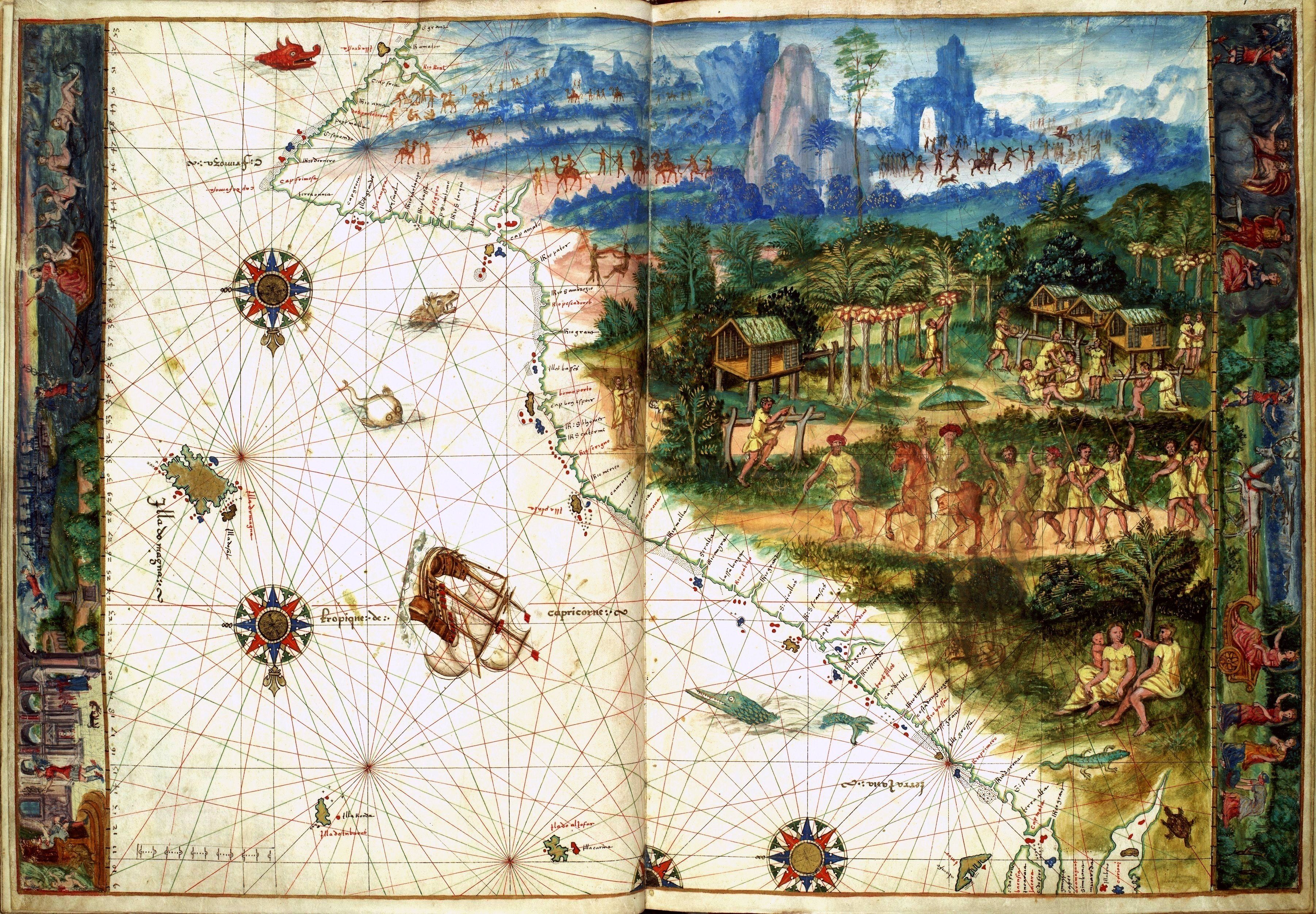 Facsimile of chart from Nicholas Vallard's manuscript sea atlas (1547), showing Jave La Grande's east coast. The facsimile was given the title "The first Map of Australia from Nicholas Vallard's Atlas, 1547" by the English publisher in 1856. The original Vallard chart was produced in Dieppe, France in the 16th century, and is thought by several writers to represent Portuguese charting of the eastern coast of Australia. This copy is held by the National Library of Australia. [cartographic material] : from the Library of Sir Thomas Phillipps, Bart. at Middle Hill, 1856. Image from the National Library of Australia: The original Vallard map is held by the Huntington Library, San Marino, California and can be viewed at From NLA catalogure information: Scale: Scale indeterminable. Publisher: [Worcestershire : Middle Hill Press, 1856] (Chester : McGahey chromo. lith.) Date: 1856 Material Type: Map Physical Description: 1 map : col. ; 37.6 x 55.4 cm. Notes: Facsimile of chart from Nicholas Vallard's manuscript sea atlas (1547), now held in the Huntington Library, San Marino, California. Map is in folder with title: Vallard's map of the coast of Greater Java.